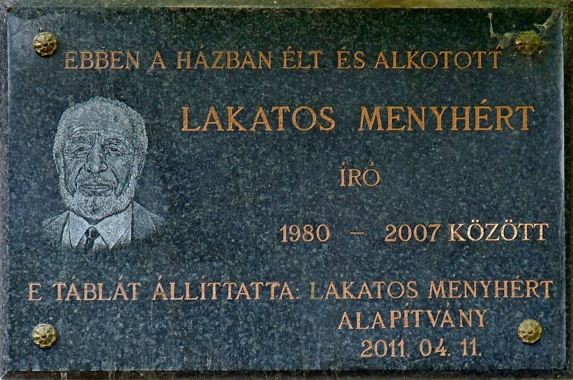 Commemorative plaque to Mr. Menyhért Lakatos (1926–2007) Attila József Prize-winning Hungarian writer. It was affixed April 11, 2011 on the wall of his former home where he has lived and worked between 1980 and 2007. (Budapest, District III, Füst Milán Street Nr 22)